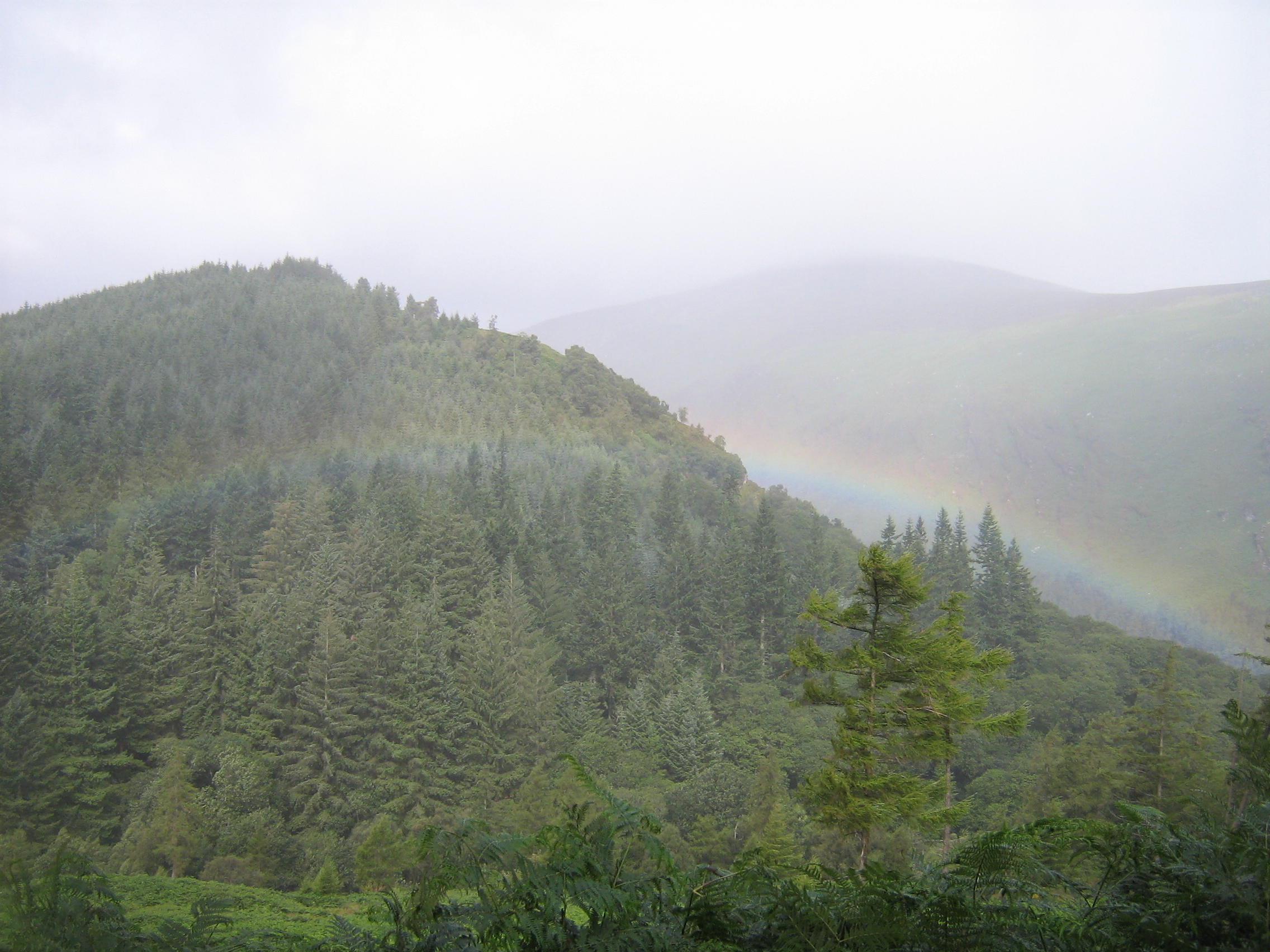 Impressions from the Wicklow Mountains national park with a rainbow